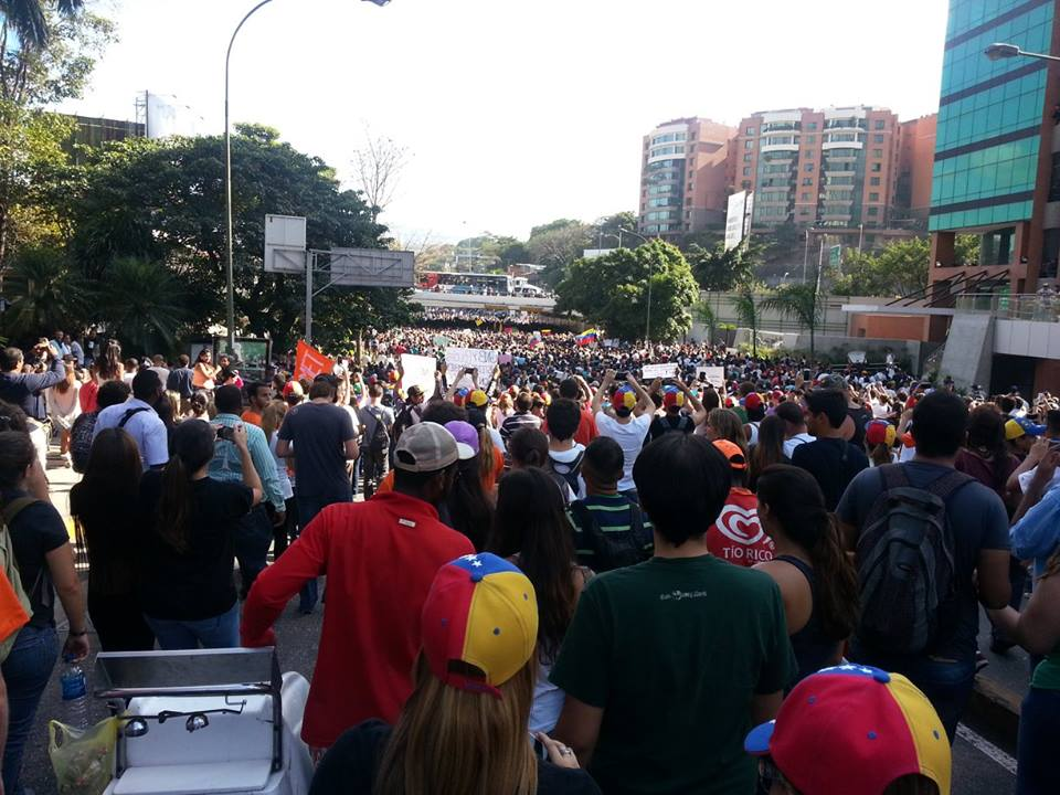 Protestas Caracas Venezuela